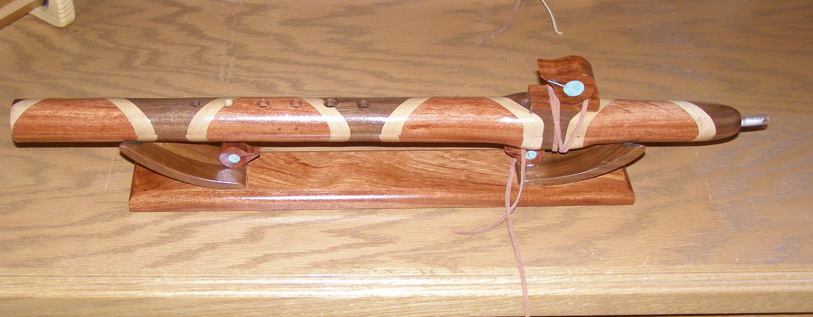 Hope flute